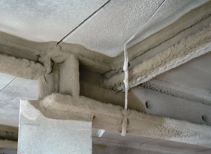 Structural steel beams with spray-applied fireproofing as seen in building 'D5' of the European Union, at the Place du Luxembourg in Brussels, Belgium.